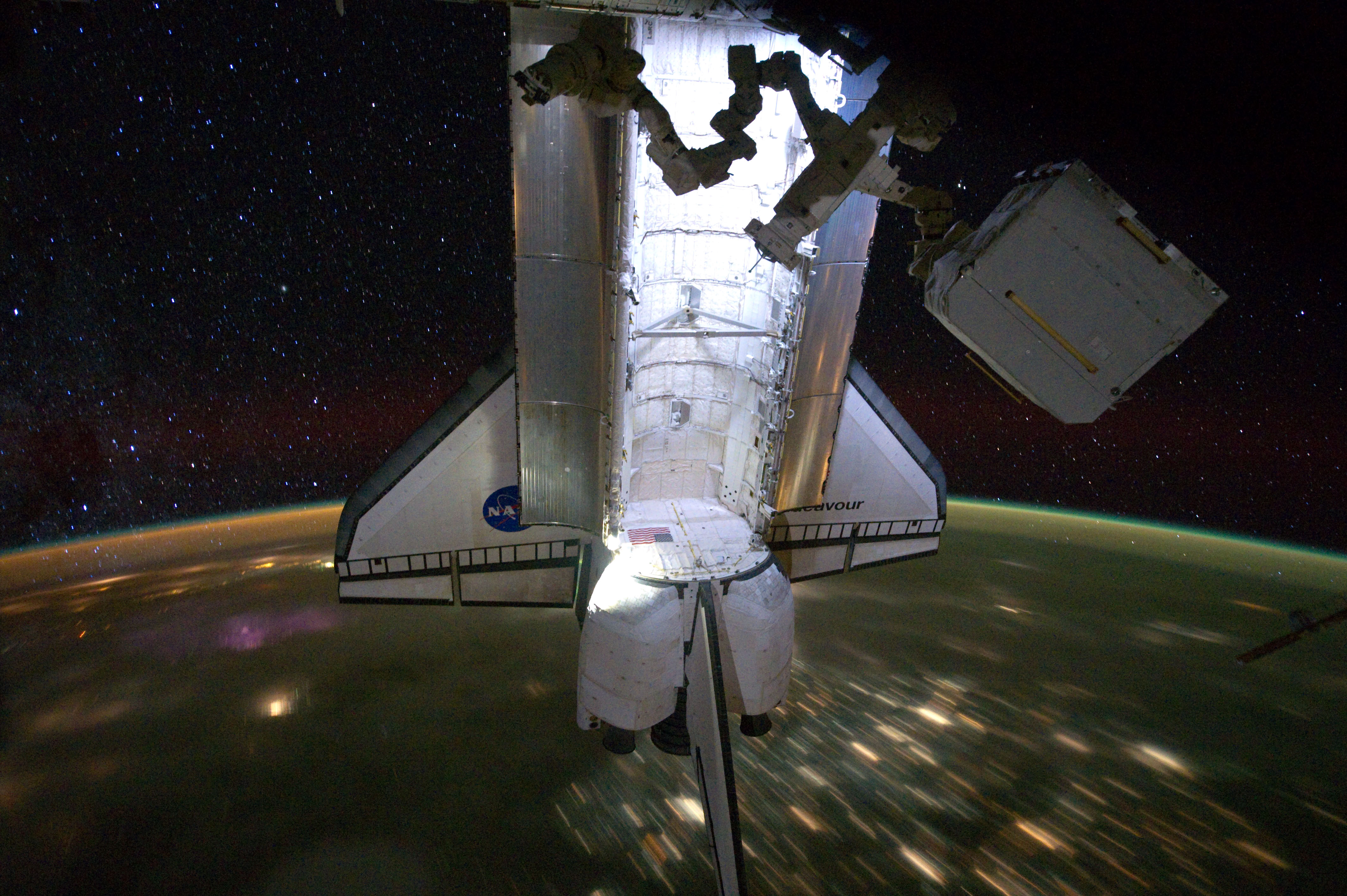 The docked space shuttle Endeavour, backdropped by a night time view of Earth and a starry sky.